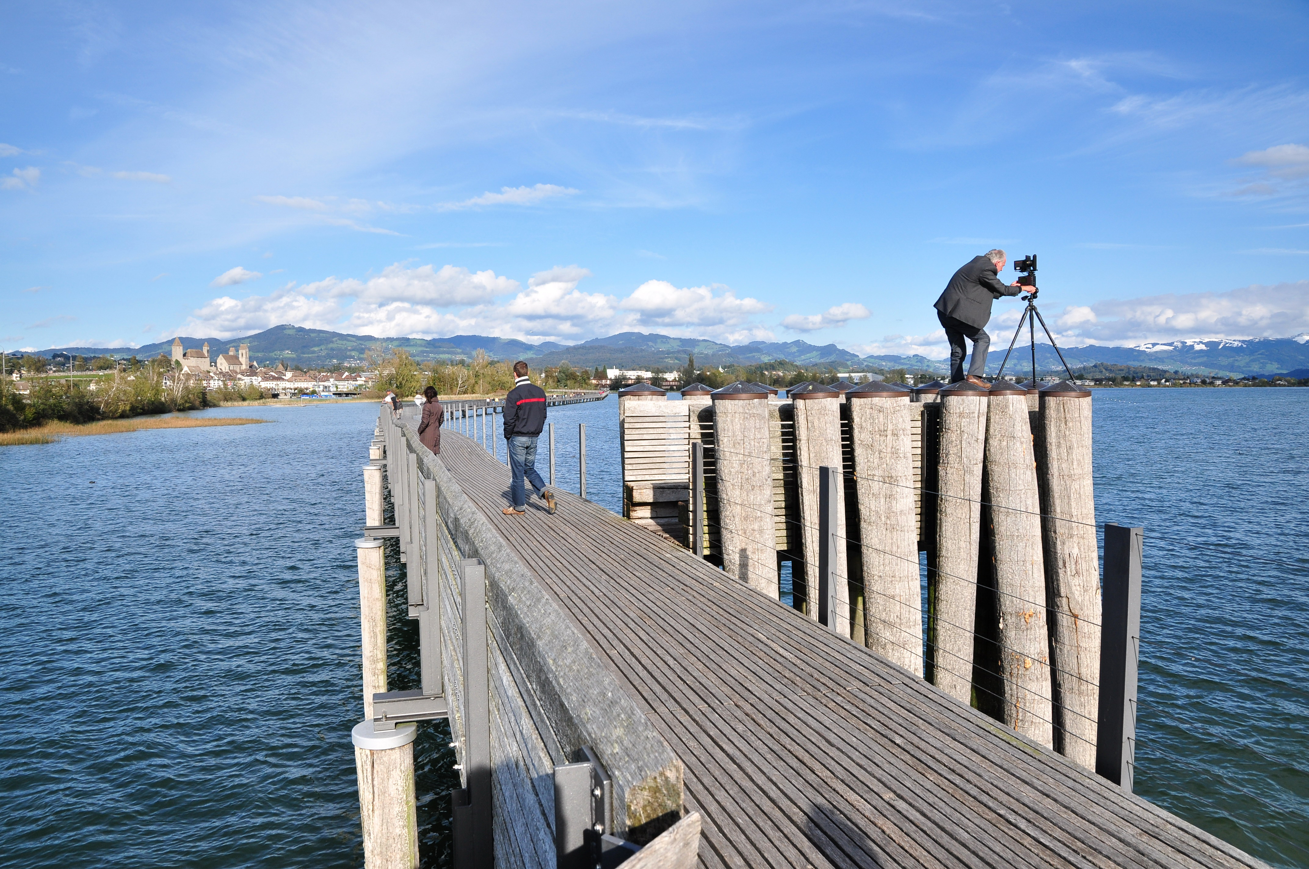 Rapperswil (Switzerland), as seen from Holzbrücke Rapperswil-Hurden, crossing Obersee (upper Lake Zurich), Seedamm to the left.